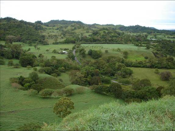 Sitio Barriles, Province of Chiriqui, Panama.